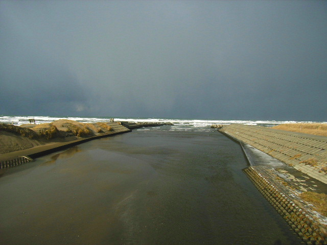 Hoshioki River and the Sea of Japan. Zenibako 3 chōme, Otaru, Hokkaidō prefecture, Japan. Northward from Bōyō Bridge.